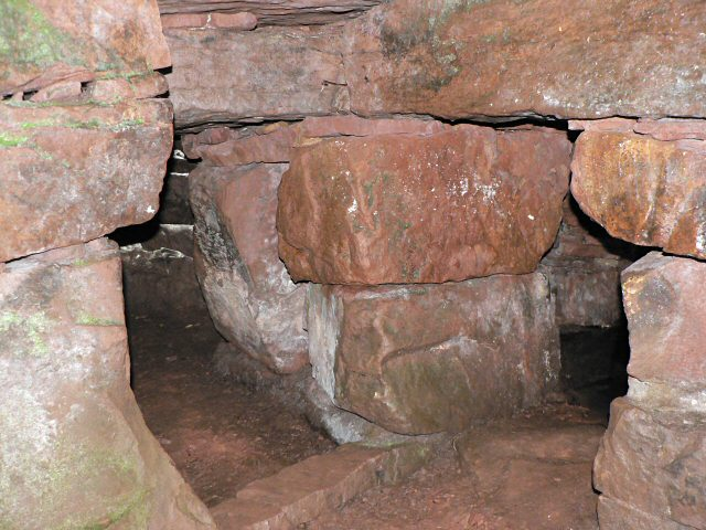 Inside Vinquoy chambered cairn. Showing two of the chambers.